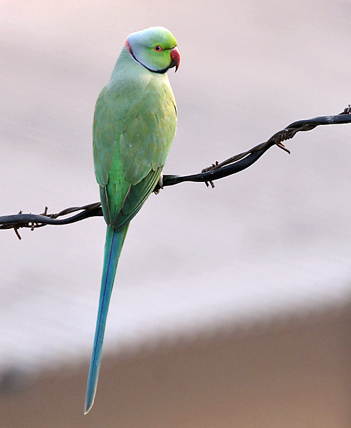 Rose-ringed Parakeet Psittacula krameri at Hodal, in Faridabad, District of Haryana, India.